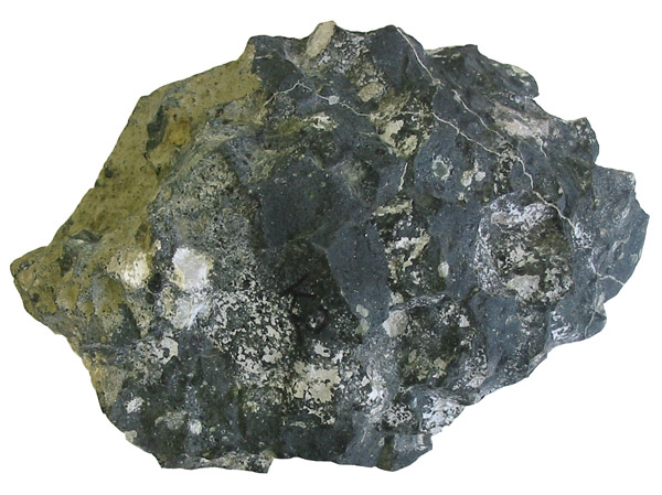 Photographer: Siim Sepp Date of the creation: 20th April, 2005. Rock is from Finland.